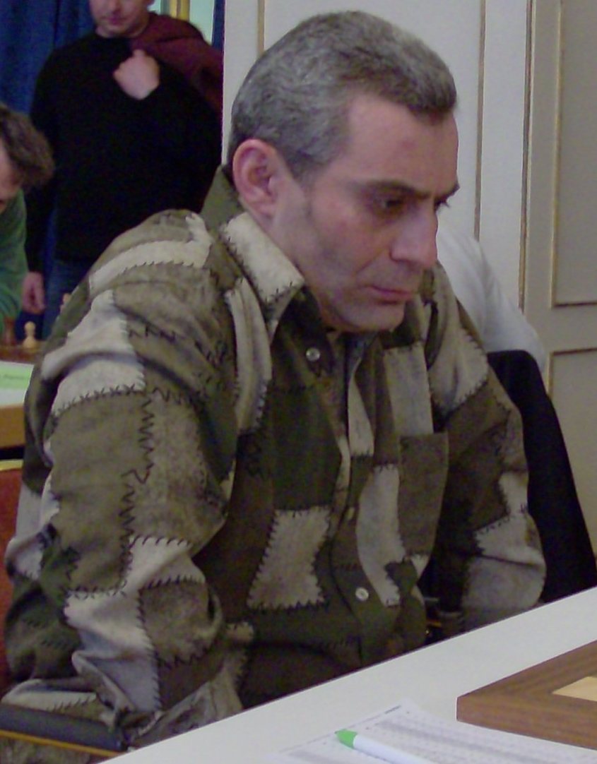 Sergei Kasparov, chess grandmaster from Belarus